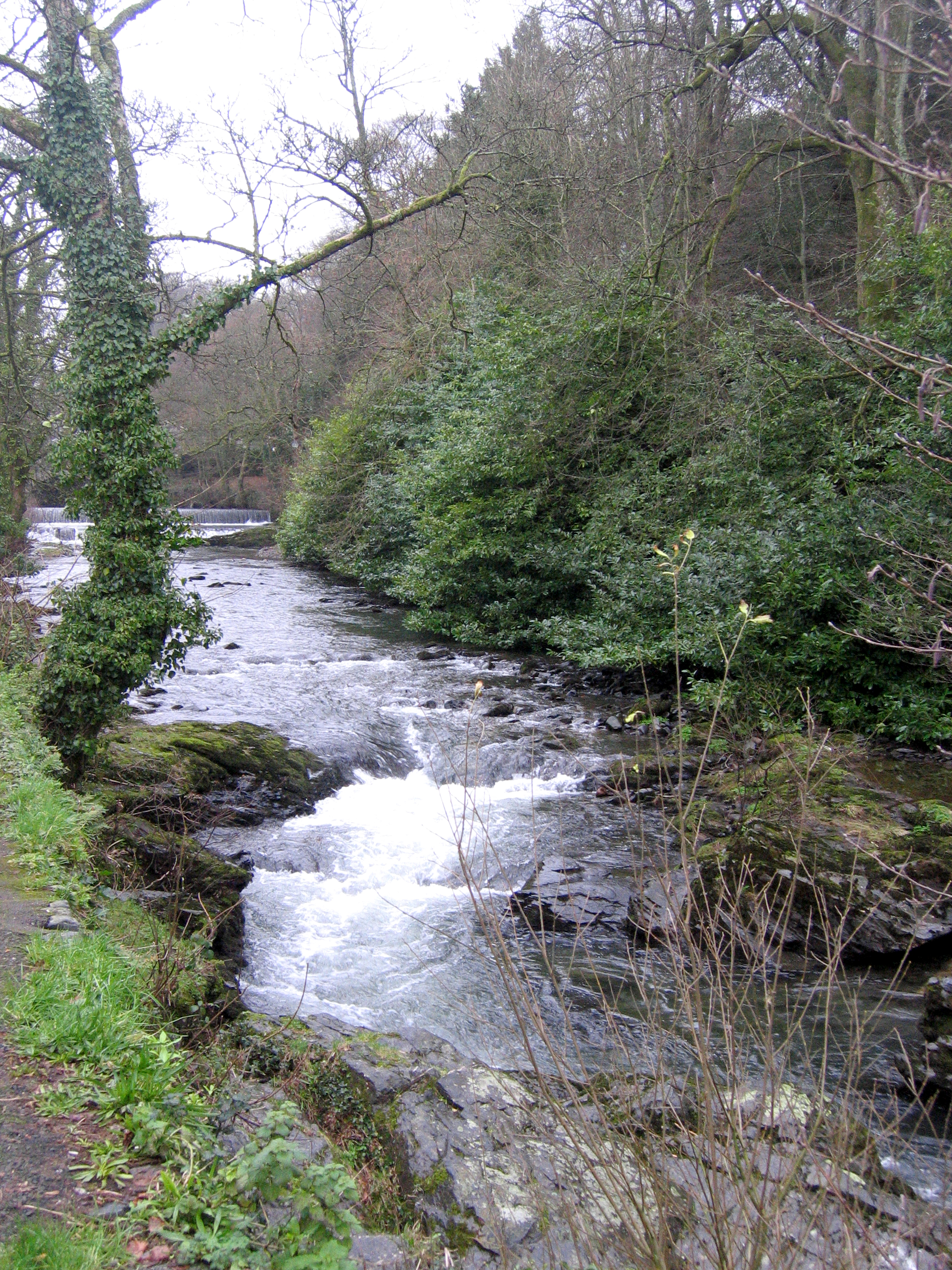 River Seaton, Hessenford Picture of the river Seaton just north of Hessenford, taken on 1st February 2007.